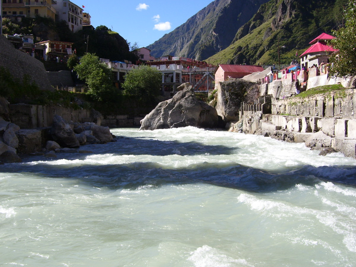 Alakananda near Badrikashram